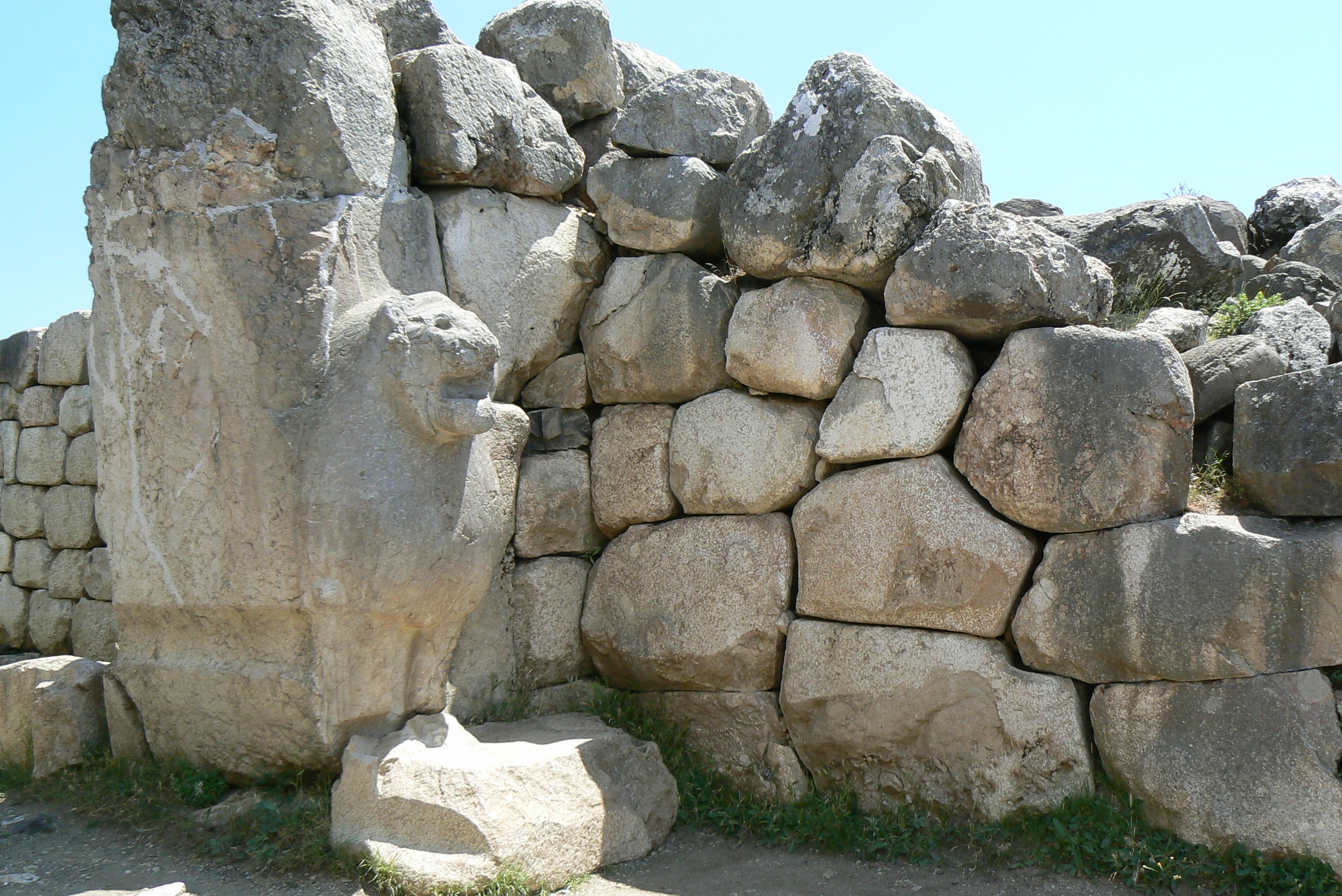 The Lion Gate, Hattusa, Turkey